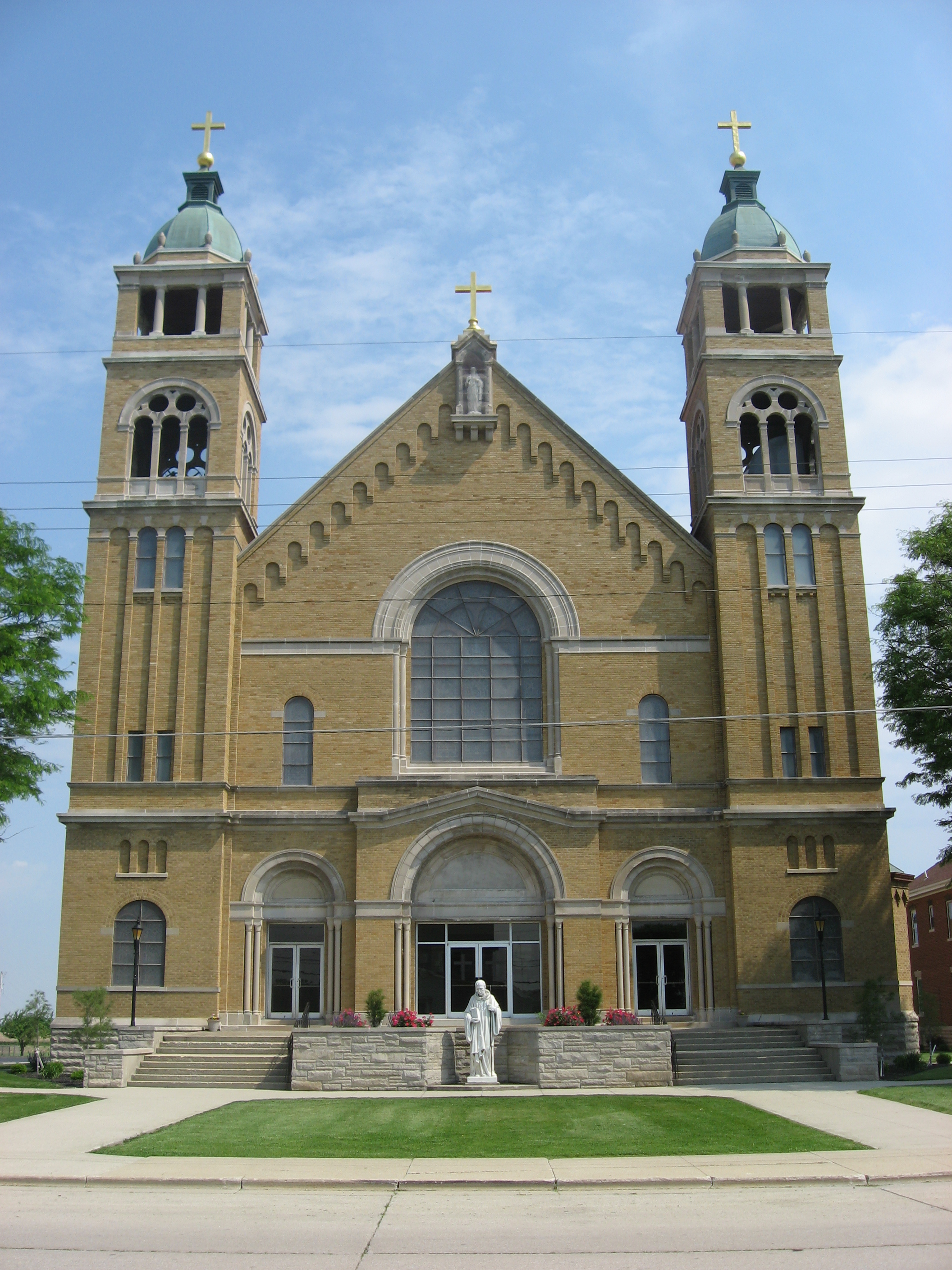 Eastern side of St. Bernard's Catholic Church, located at 71 W. Main Street on the Mercer County side of Burkettsville, Ohio, United States. Built in 1924, the church and its rectory were listed together on the National Register of Historic Places as a part of the Cross-Tipped Churches of Ohio Thematic Resources.